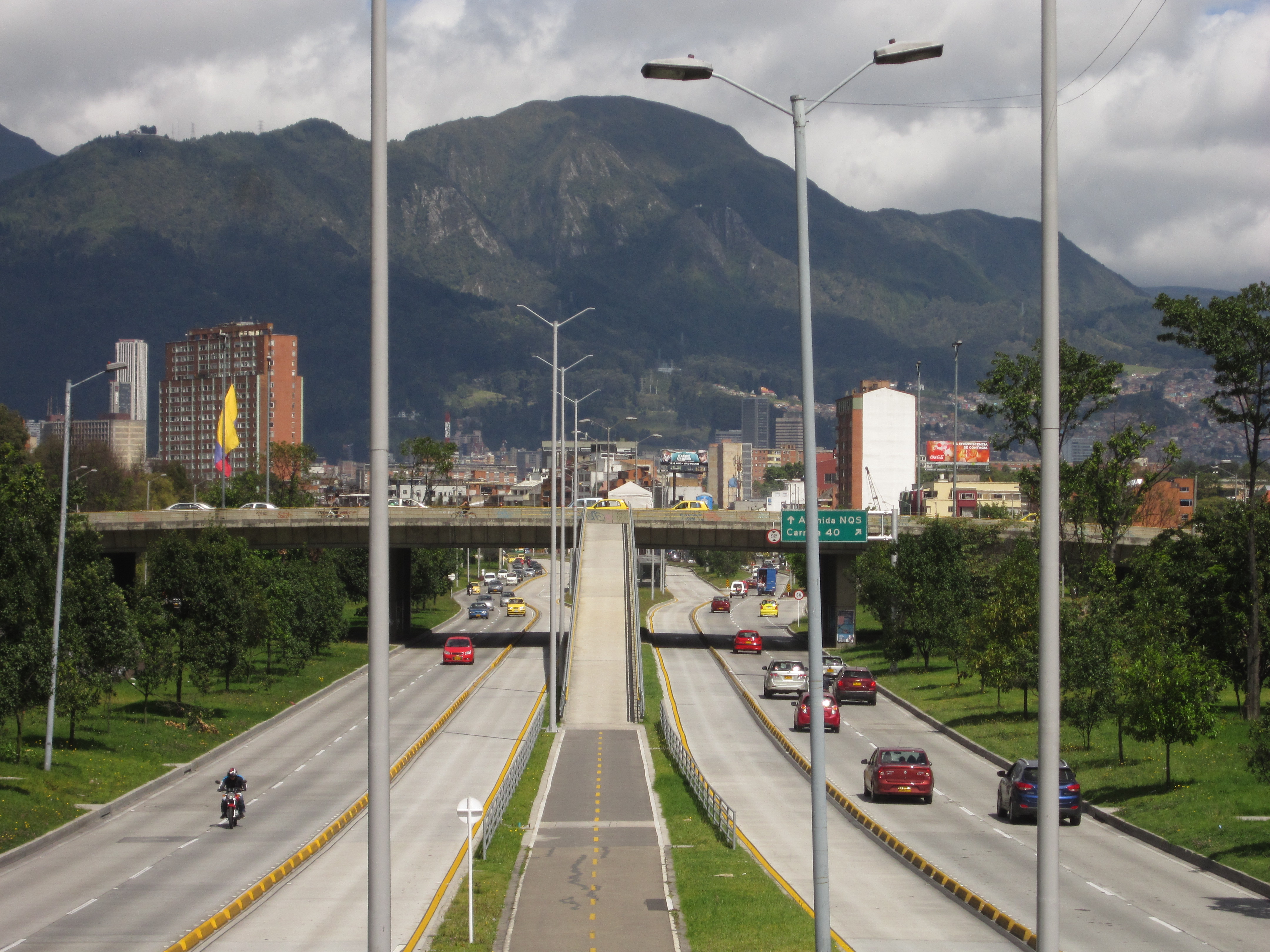 Bogotá